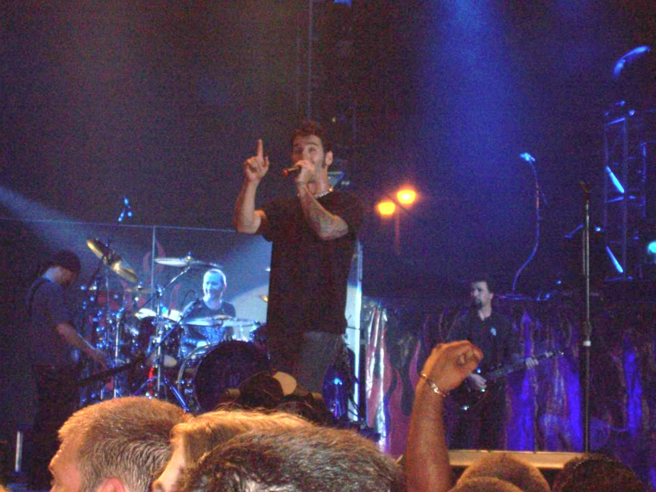 Q101 Block Party at Northerly Island Pavilion 6/15/07